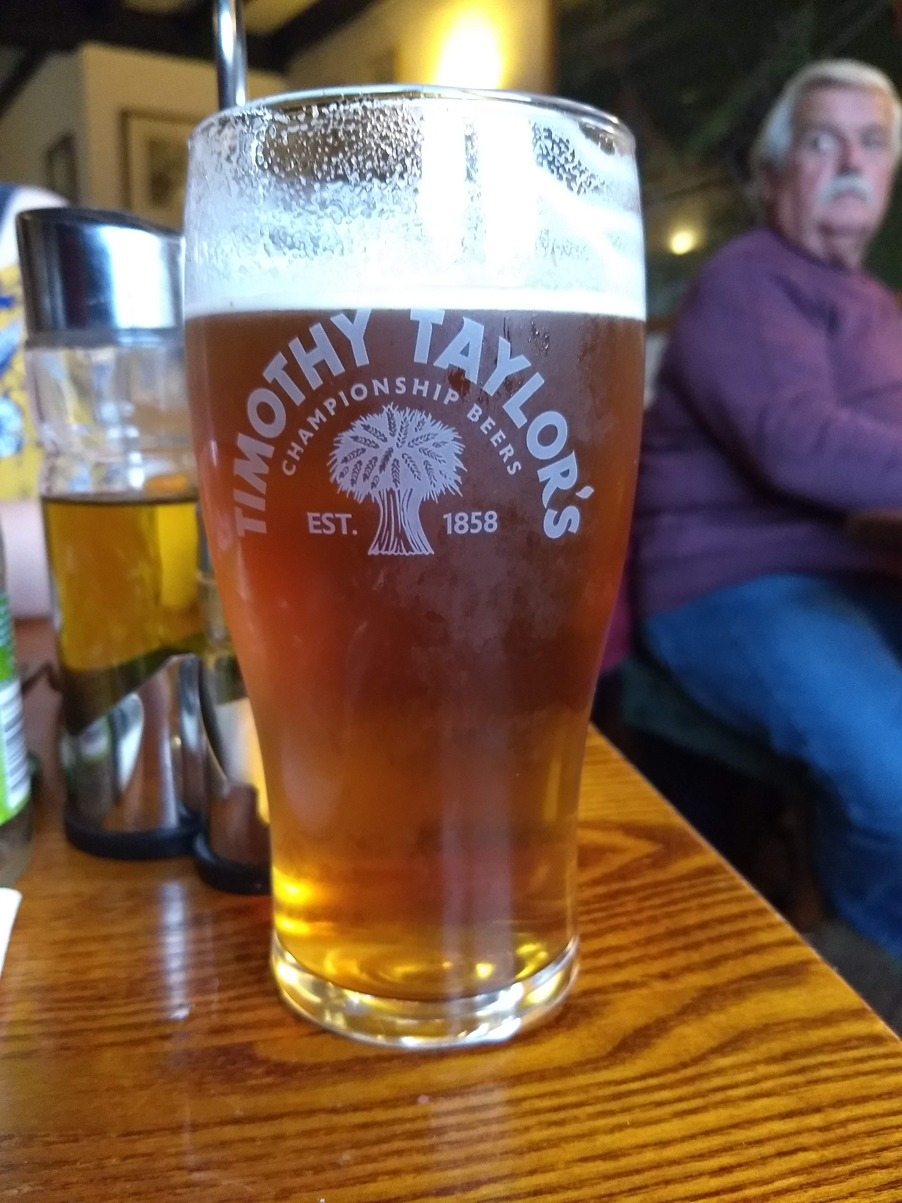 a glass withy Timothy Taylor